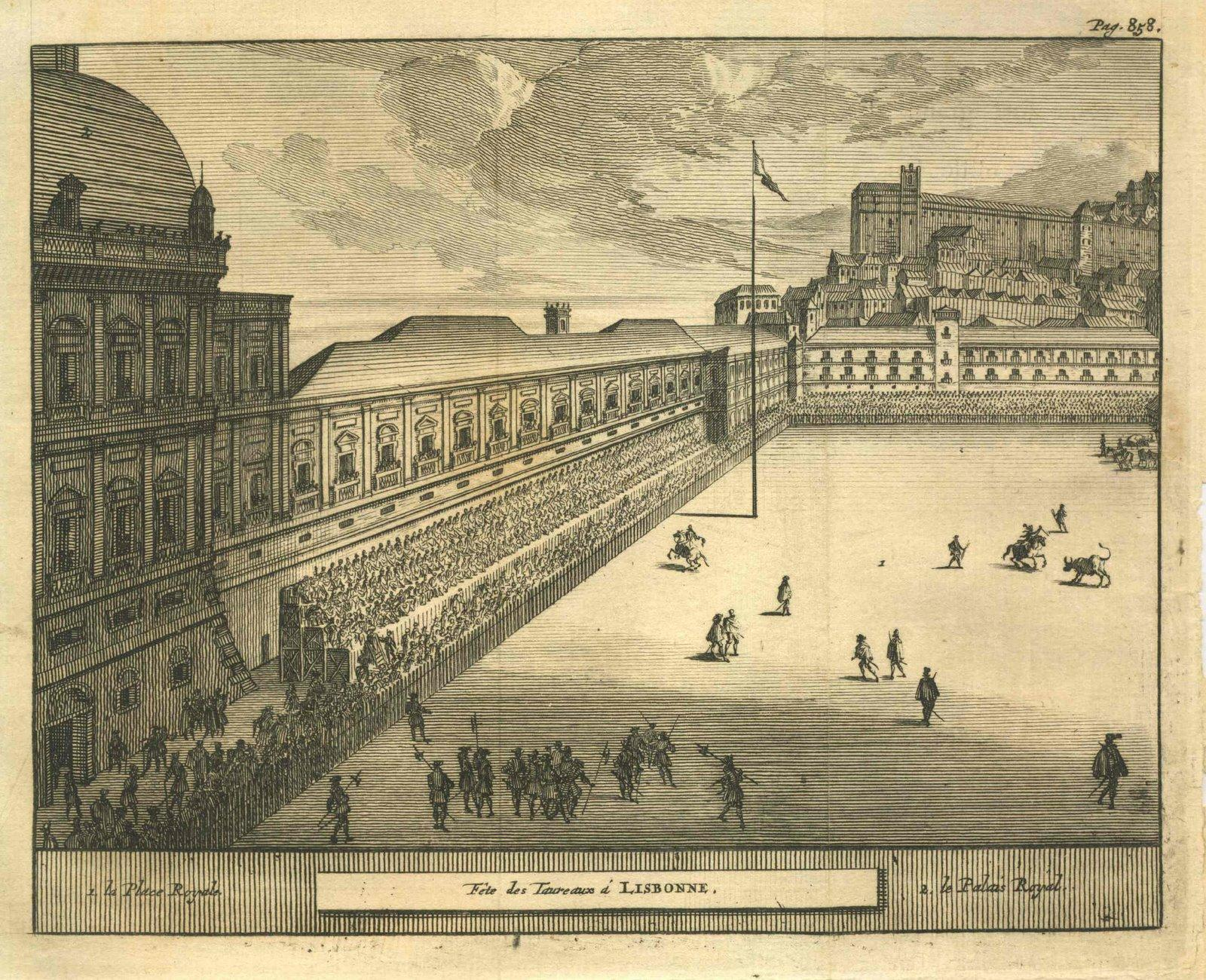 French drawing of the Palace of Ribeira in the 18th century from the main square by Guillaume Debrie